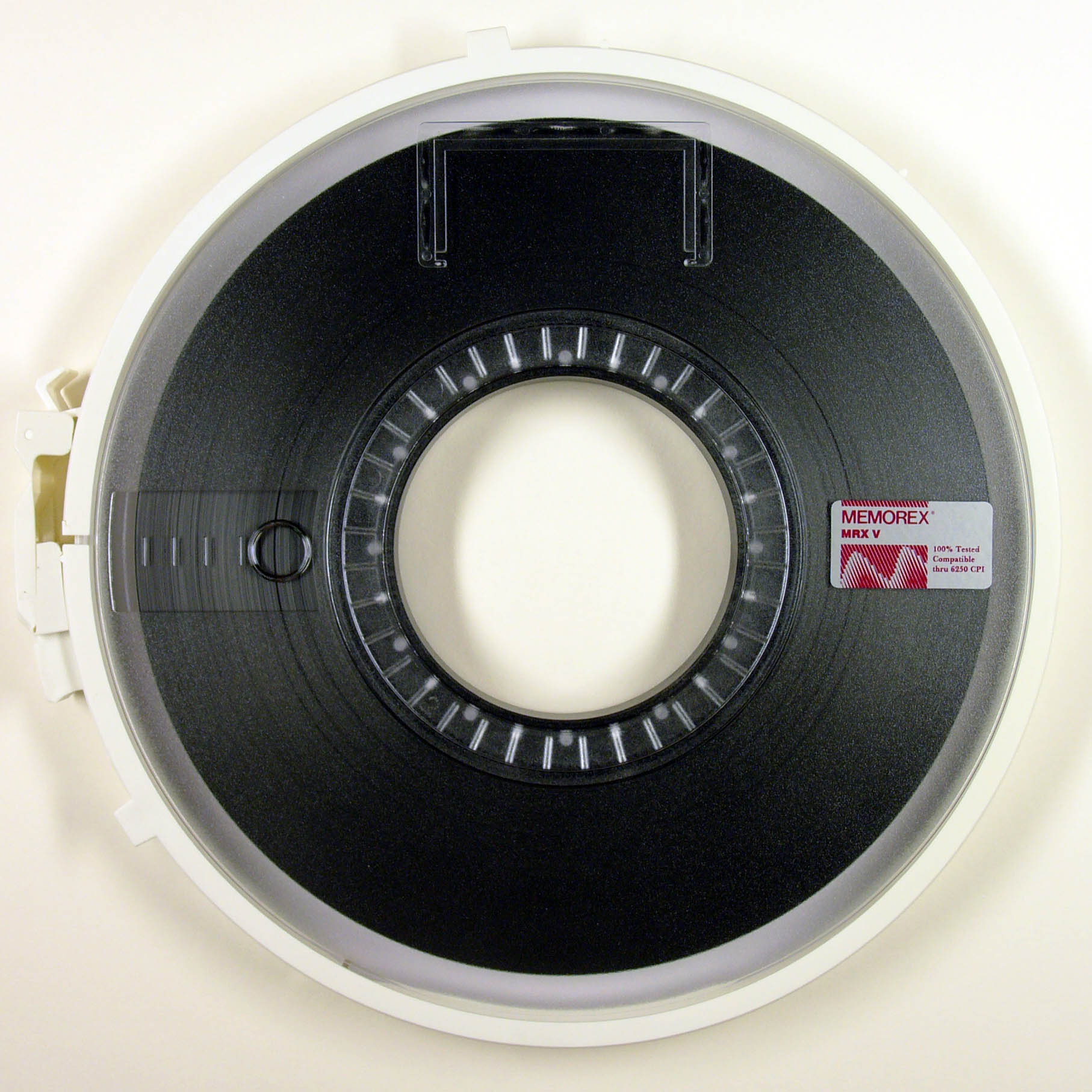 Magnetic tape, Memorex 6250 CPI for computer tape engines, used between 1970 and 1990